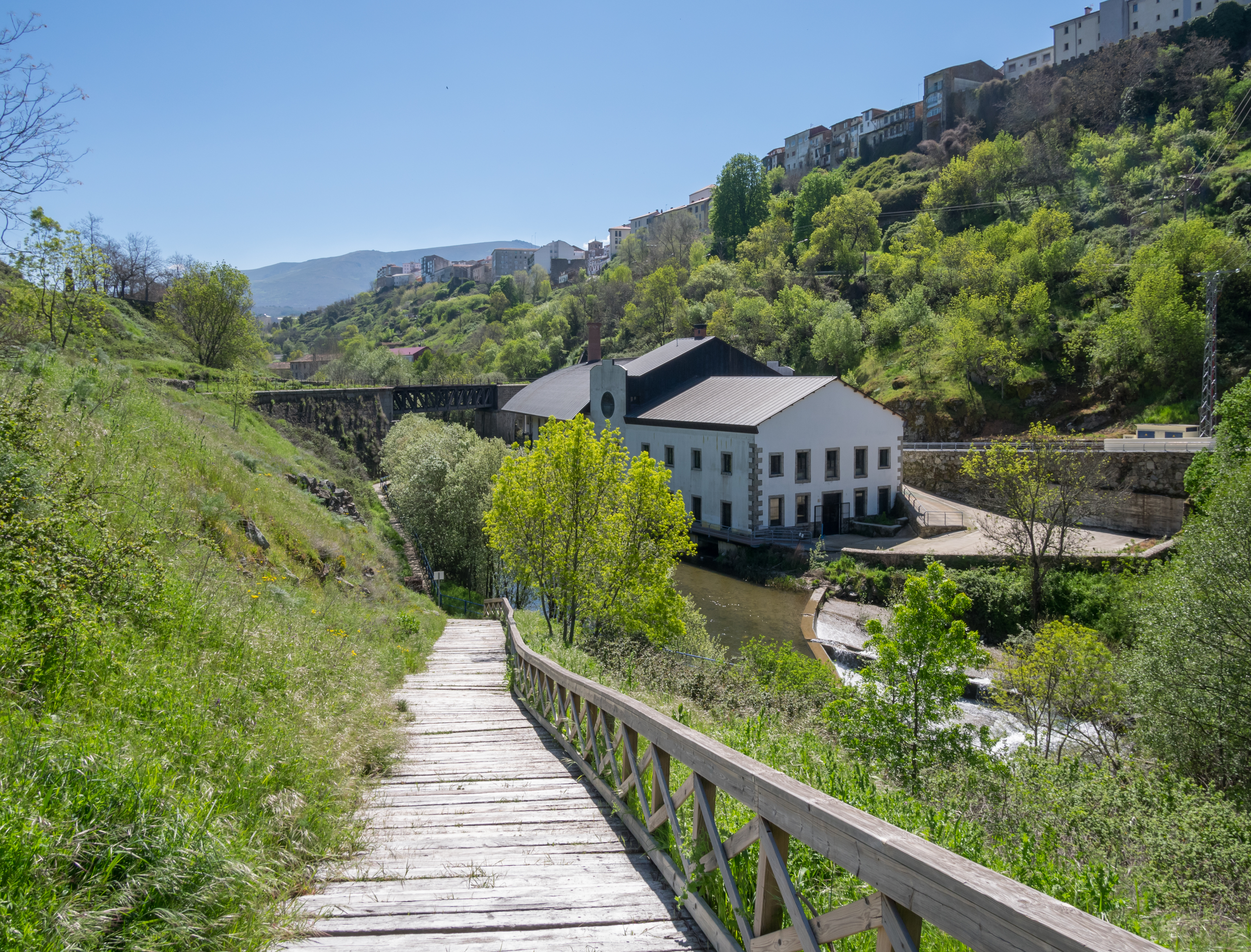 Ruta de las Fábricas Textiles de Béjar: City hiking trail along the textile plants in Béjar. Salamanca, Castile-Leon, Spain